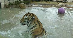 Mike the Tiger in water rfrmt